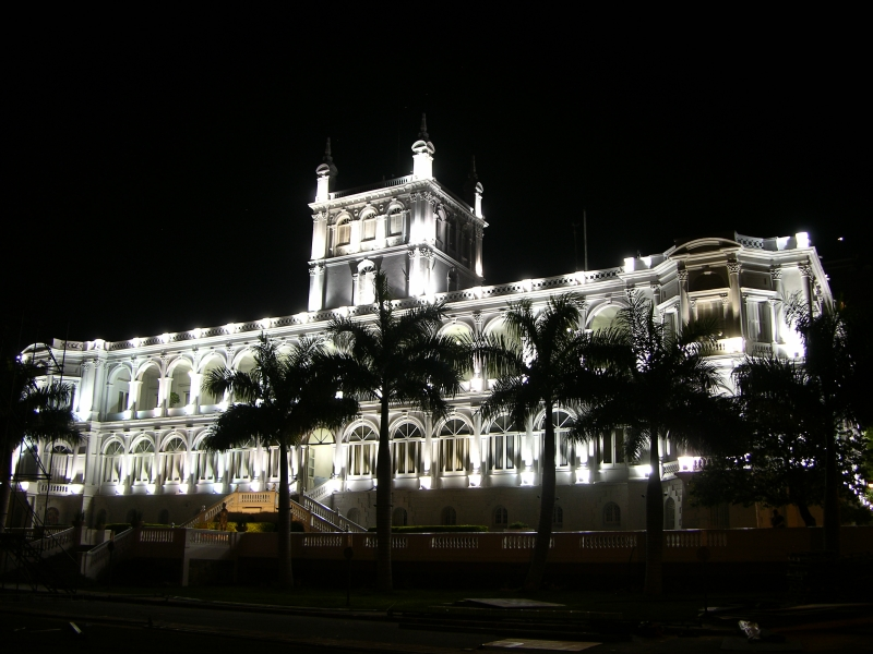 Palace of the Lopez is a palace in Asunción, Paraguay, that serves as workplace for the President of Paraguay, and is also the seat of the government of Paraguay, Asunción.